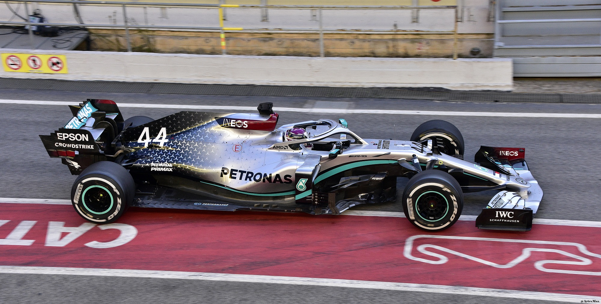 Formula 1 Pre-Season Testing 2020 / Circuit de Barcelona / Mercedes-AMG F1 W11 EQ Performance / Lewis Hamilton / GBR / Mercedes-AMG Petronas Formula One Team